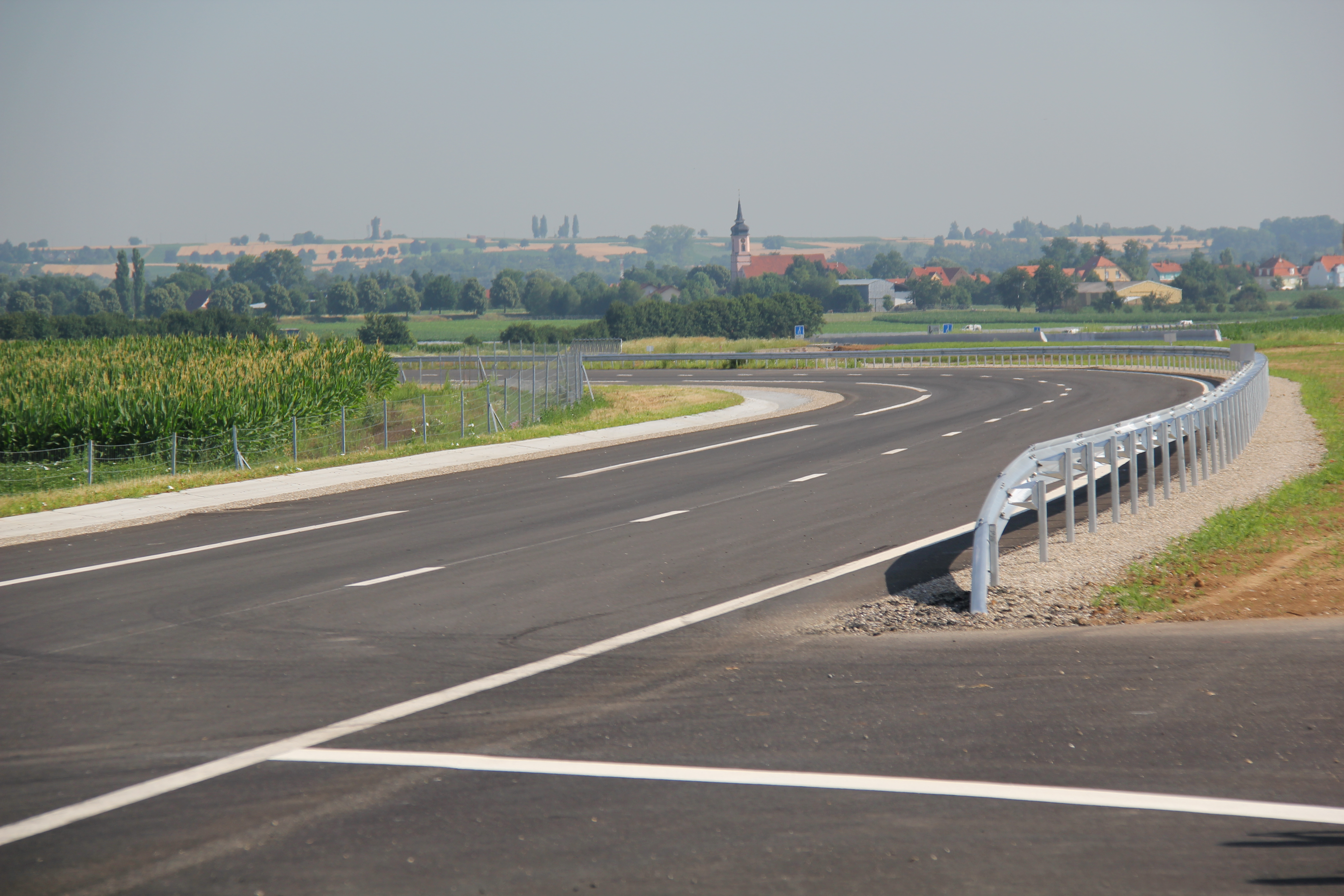 A352/A35 highway jonction north to south the day of its inaugural, just before first vehicle use the new road